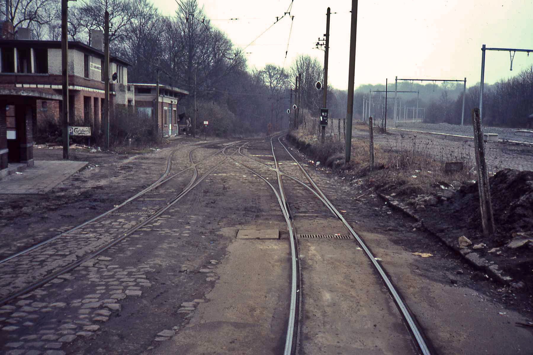 The vicinal lines in Mariemont split up here. The line 30 goes downhill to the left and crosses the other line and the railway with a tunnel. The line 80 follows the railway line until Morlanwelz. The last building on the left is an elektricity supplystation. The railway line 112 is being electrified. Compare this picture with "Mariemont_Splitsing.jpg" taken in 2009.